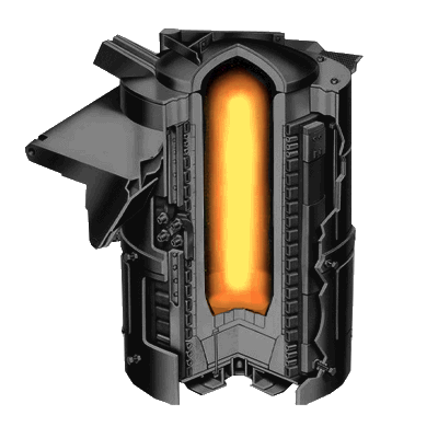 Induction furnace from Global Village Construction Set